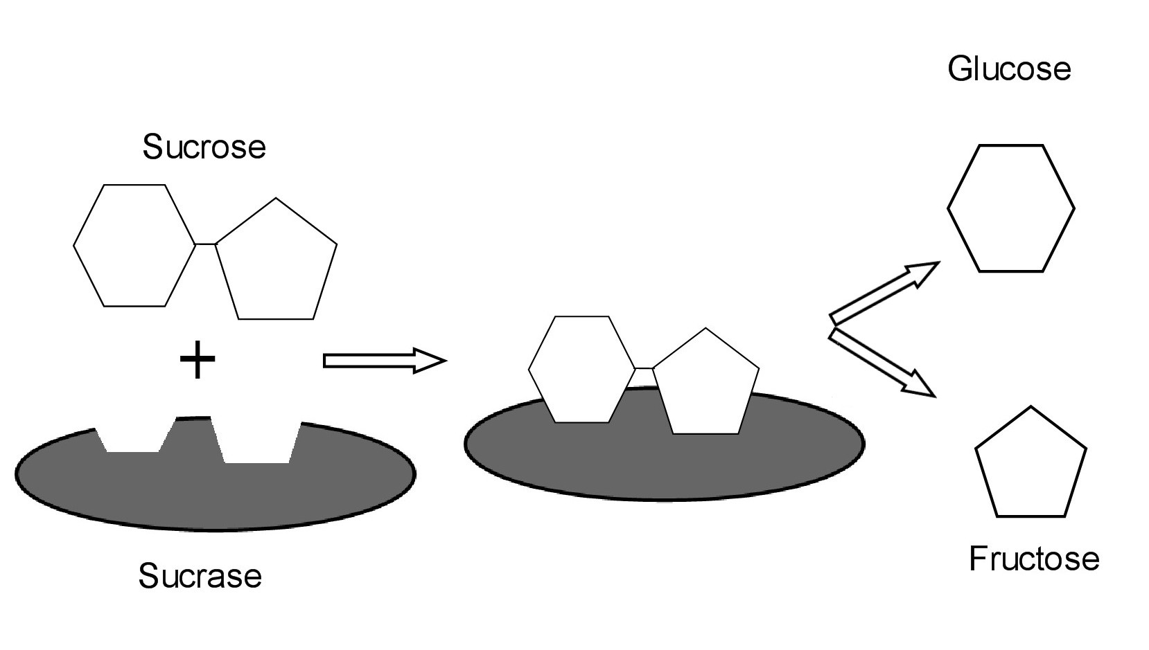 The disaccharidase sucrase hydrolyzes sucrose into the monosaccharides glucose and fructose.